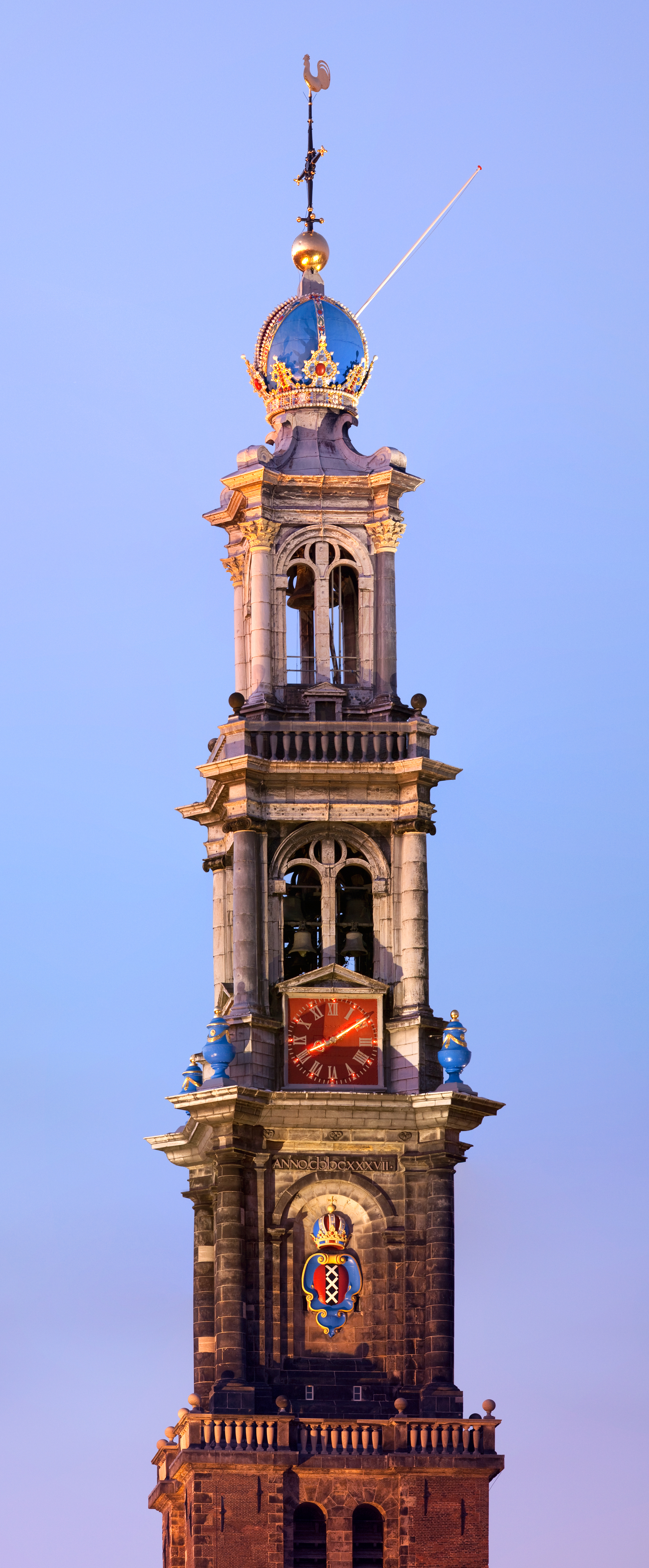 The 'Westertoren' is the highest church tower in Amsterdam (89m), and a landmark structure for this city in Holland (the Netherlands). Building was finished in 1637 and designed by the famous Dutch architect Hendrick de Keyser, but probably finished by Jacob van Kampen in a different shape, this was the tower Anne Frank was able to see from her room in the 'Achterhuis' and chiming of the carillon was a source of comfort to her as mentioned in her diary. The resolution of the original photograph is 3588*7491.